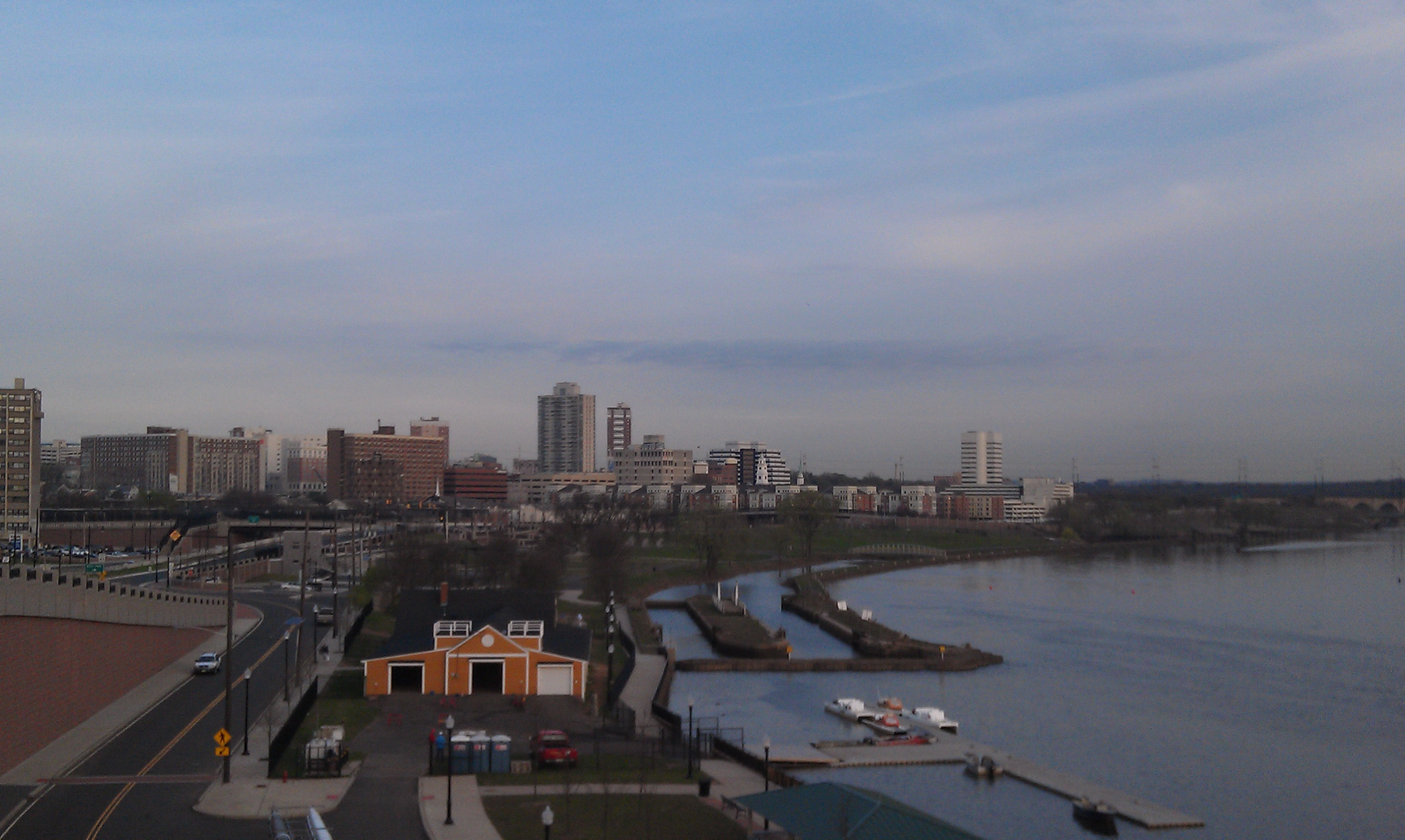 The New Brunswick Skyline and Raritan River are shown as the sun rises on an early Spring morning